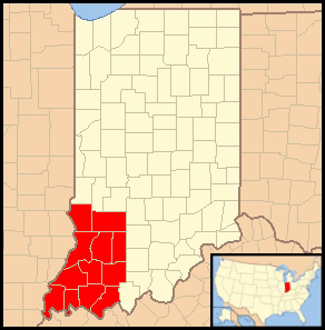 Map of the Catholic diocese of Evansville in the USA (Indiana).